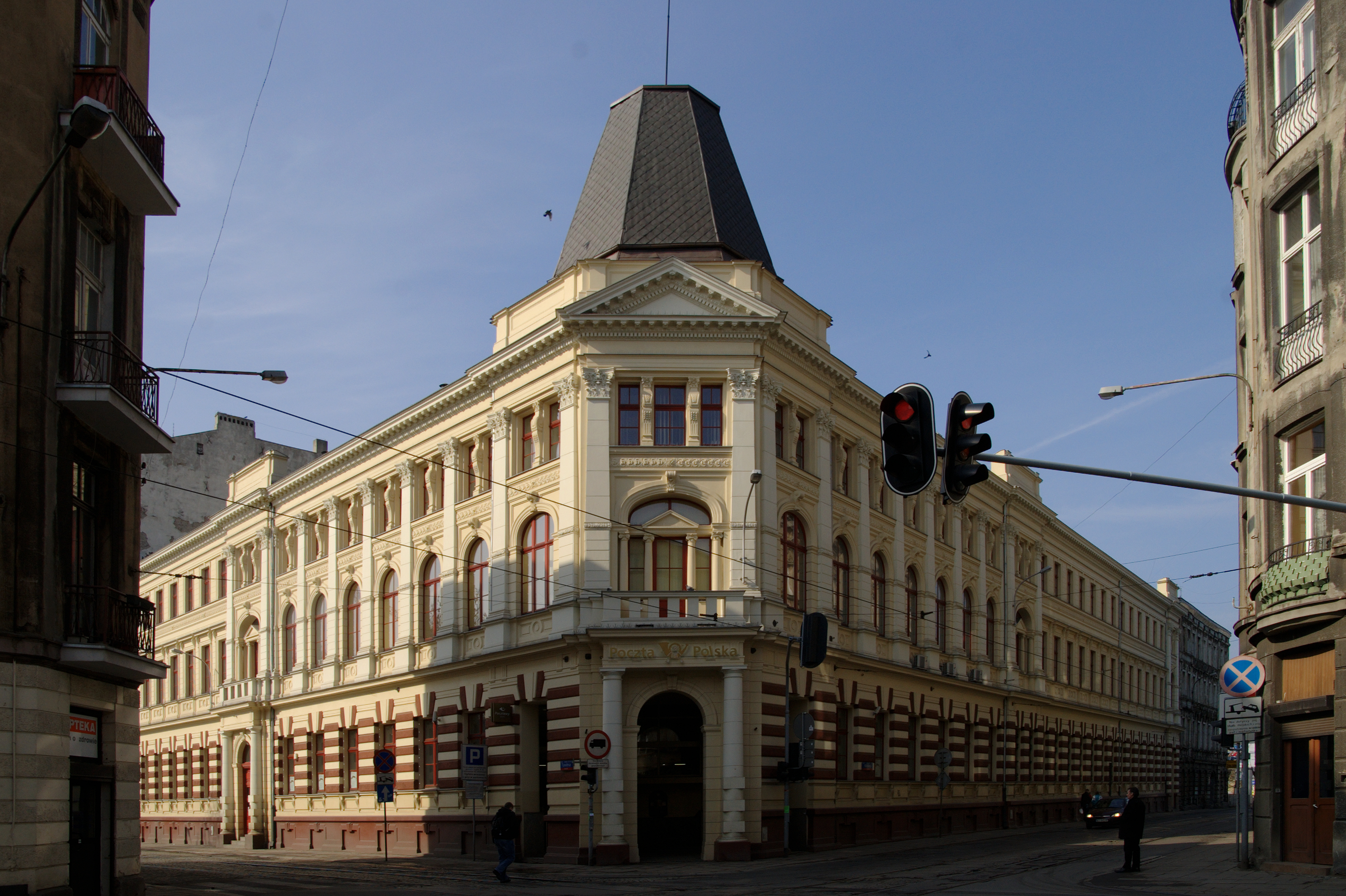 Main post office in Łódź